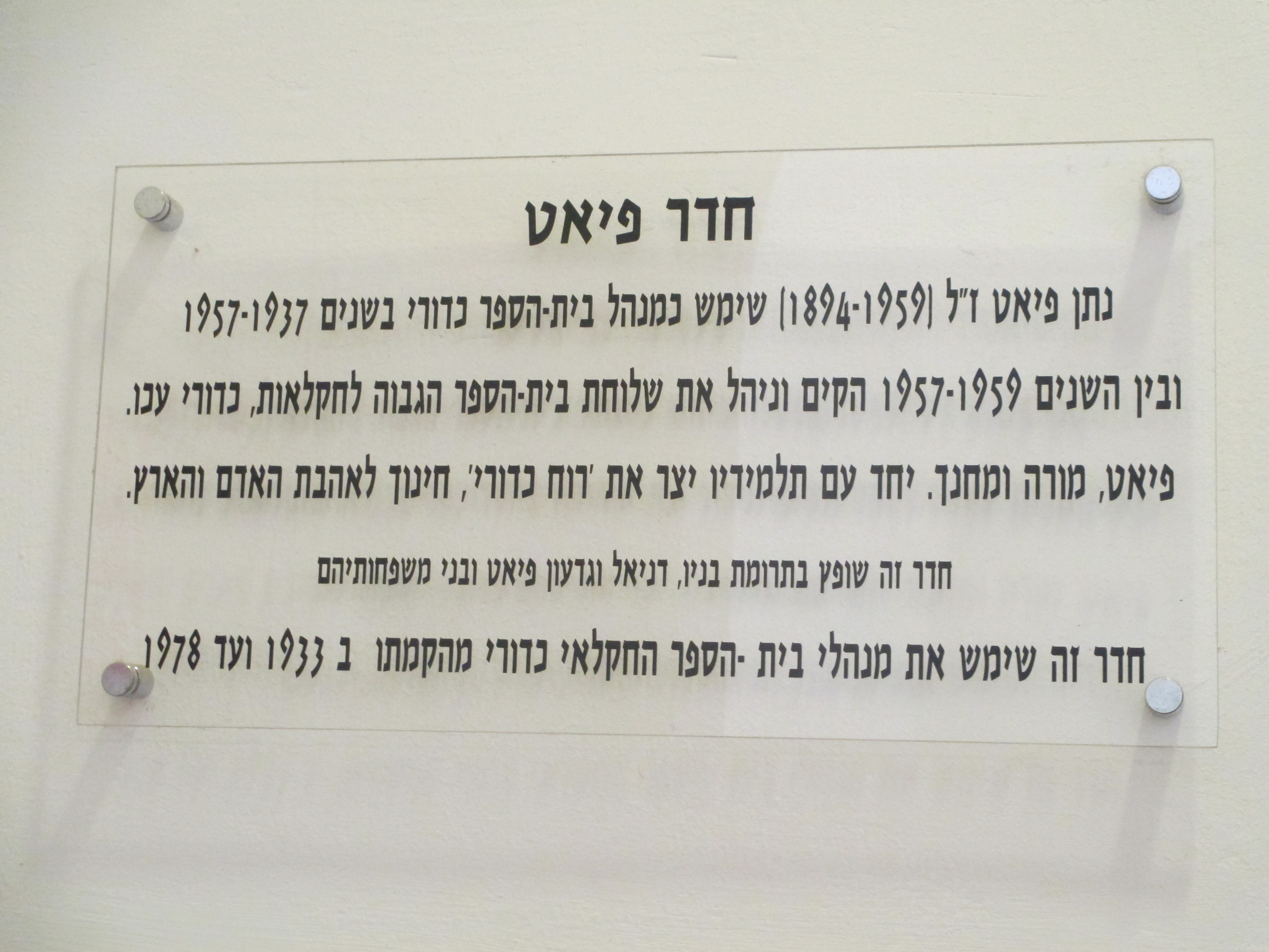 Kadoorie Agricultural School